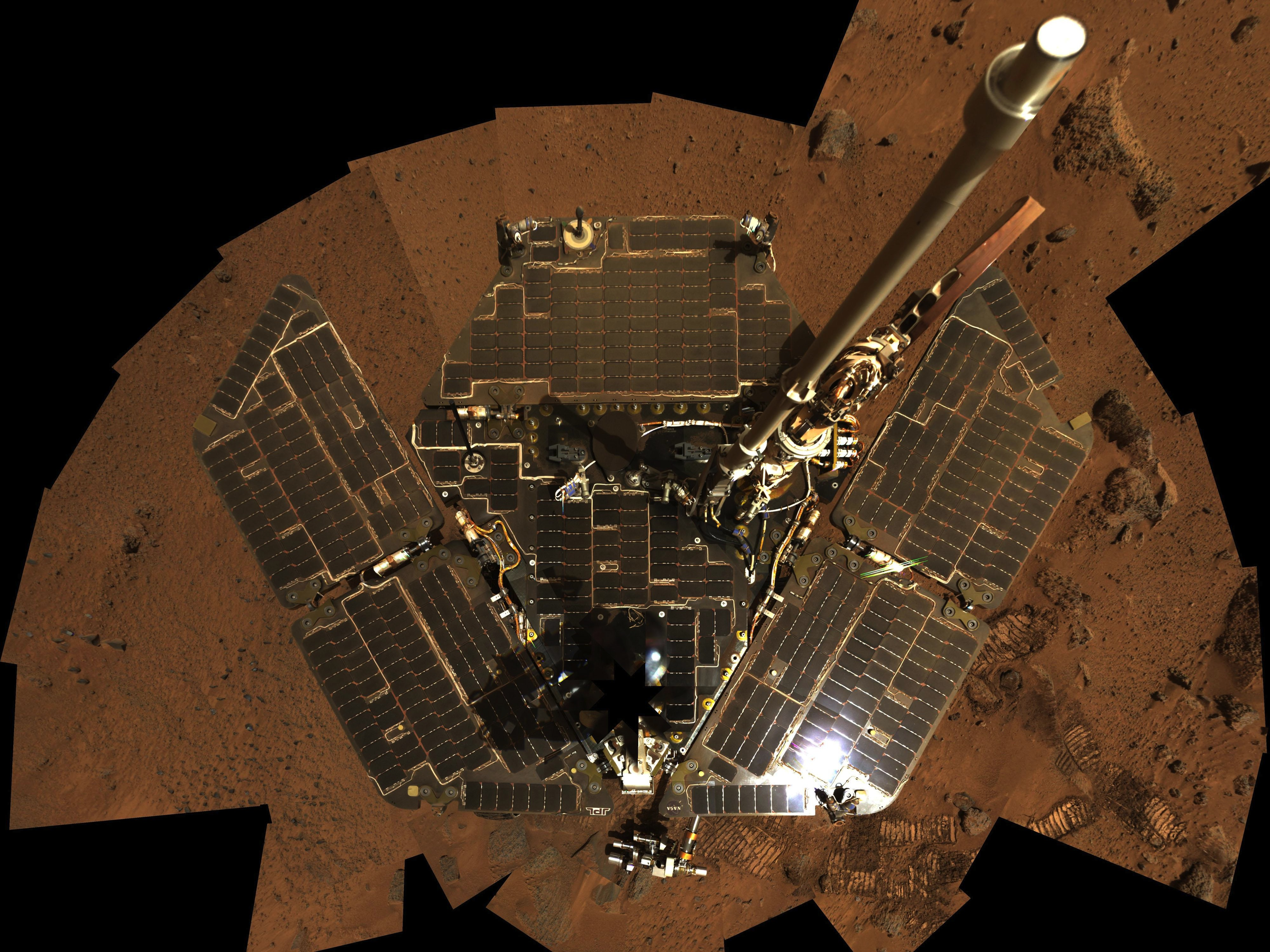 Overhead view of the Martian rover Spirit.